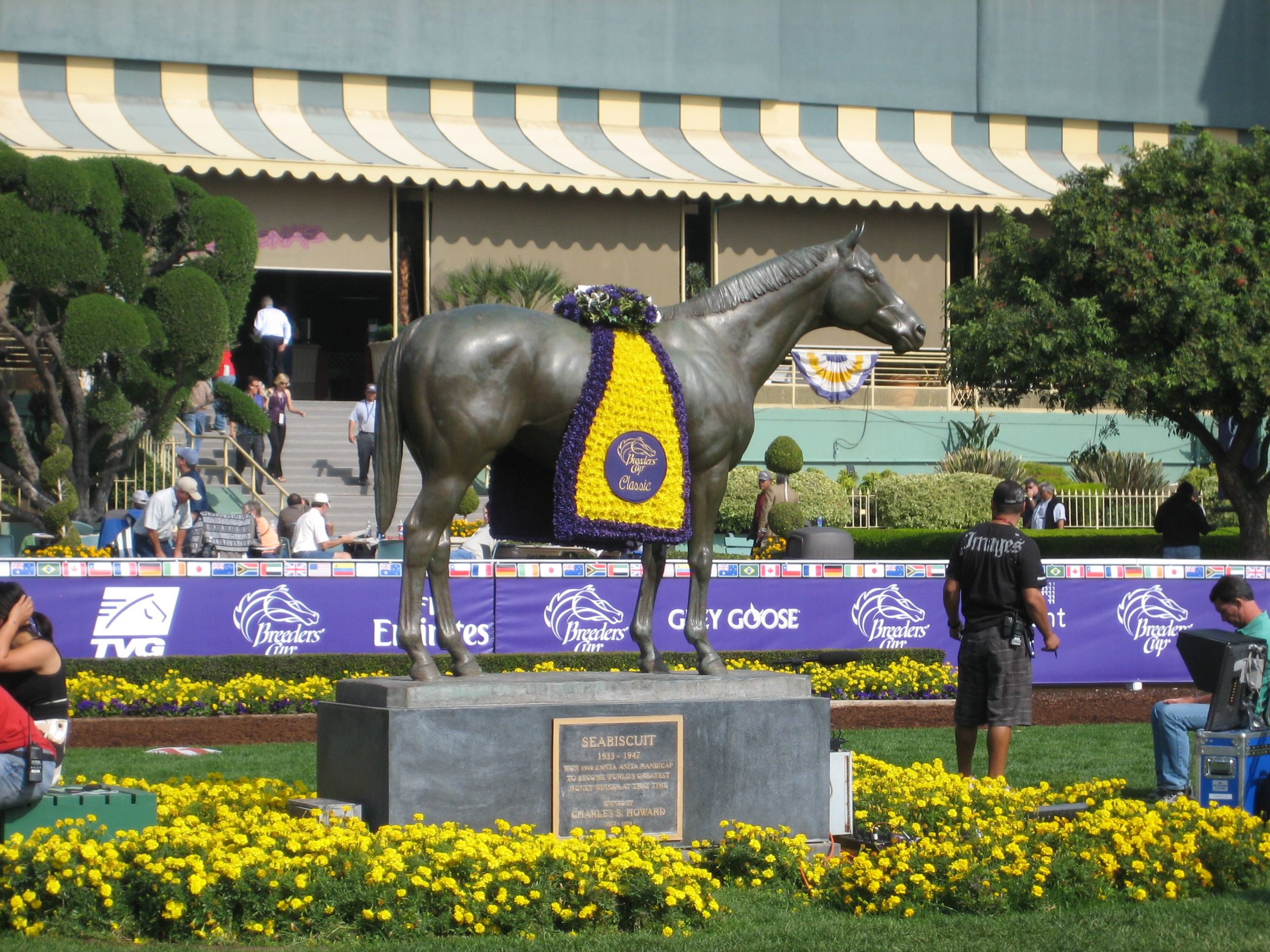 Photos from the Breeder's Cup at Santa Anita Race Track, 06 November 2009 Photos from the Breeder's Cup at Santa Anita Race Track, 06 November 2009 Breeders' Cup 2009